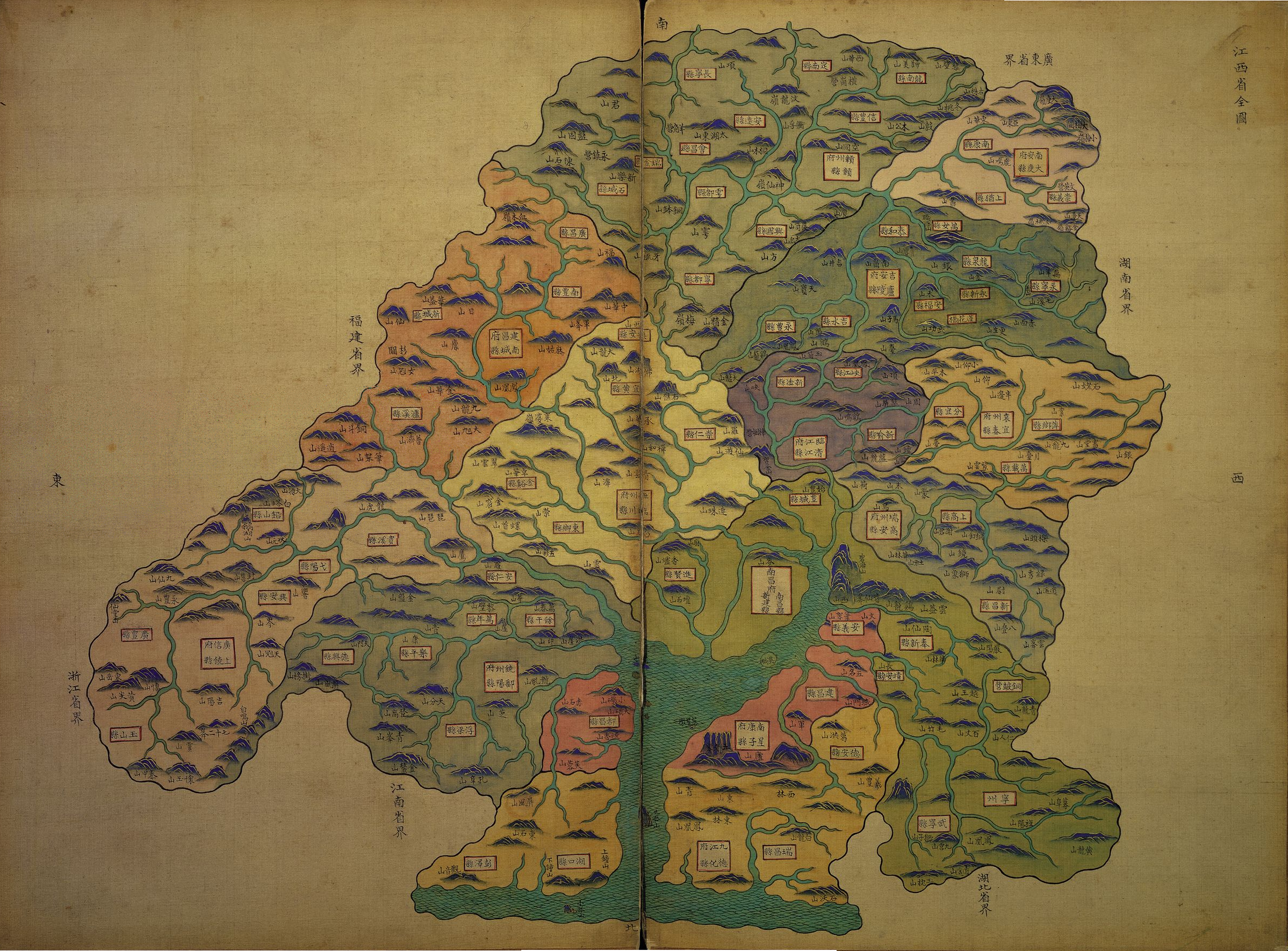 A map of Jiangxi Province, PRC. Original made in the Qing Dynasty